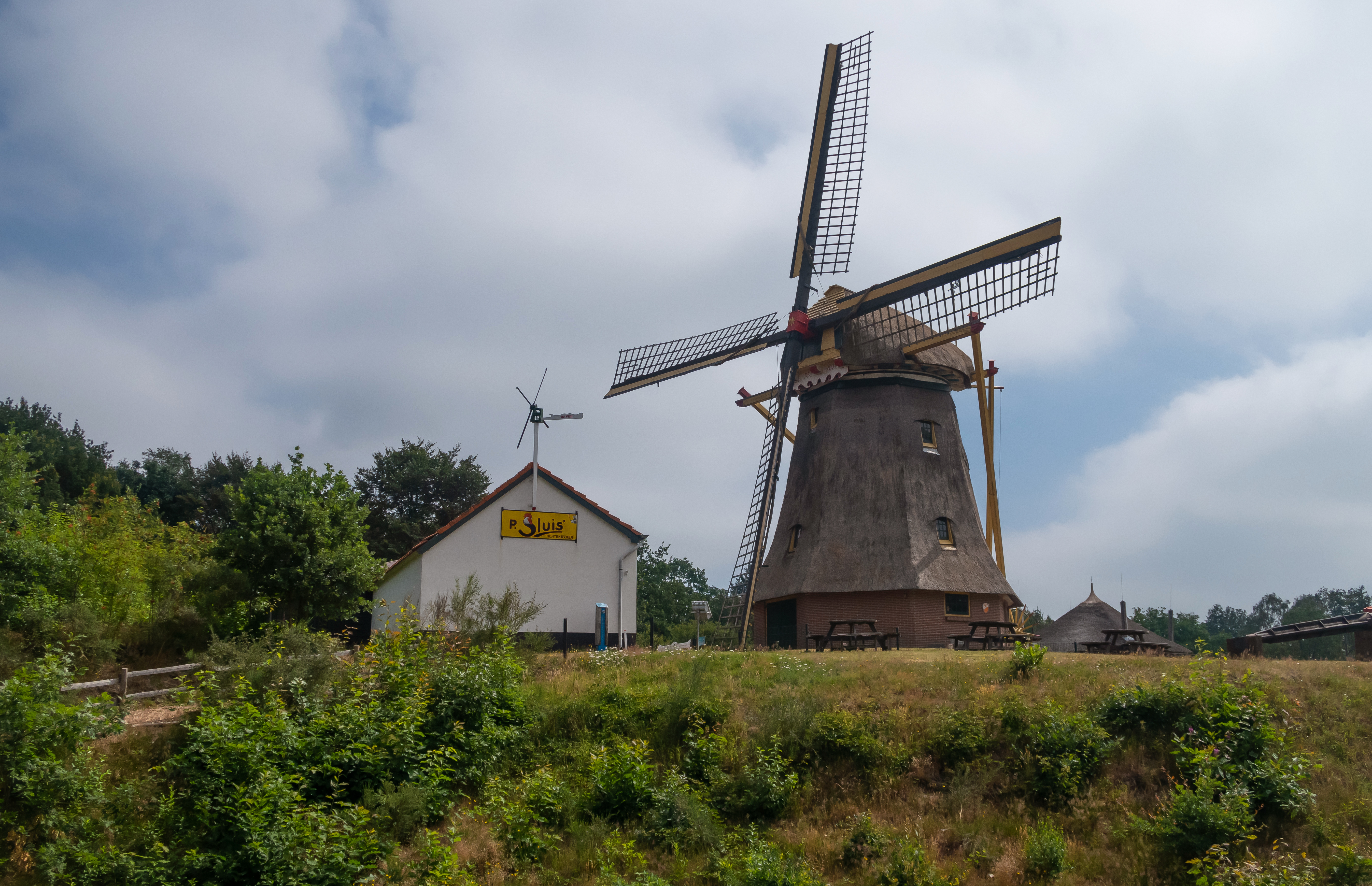 Wapenveld, windmill: korenmolen de Vlijt